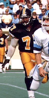 Grover Covington - Hamilton Tiger-Cats - Photographed by Mike F. Campbell